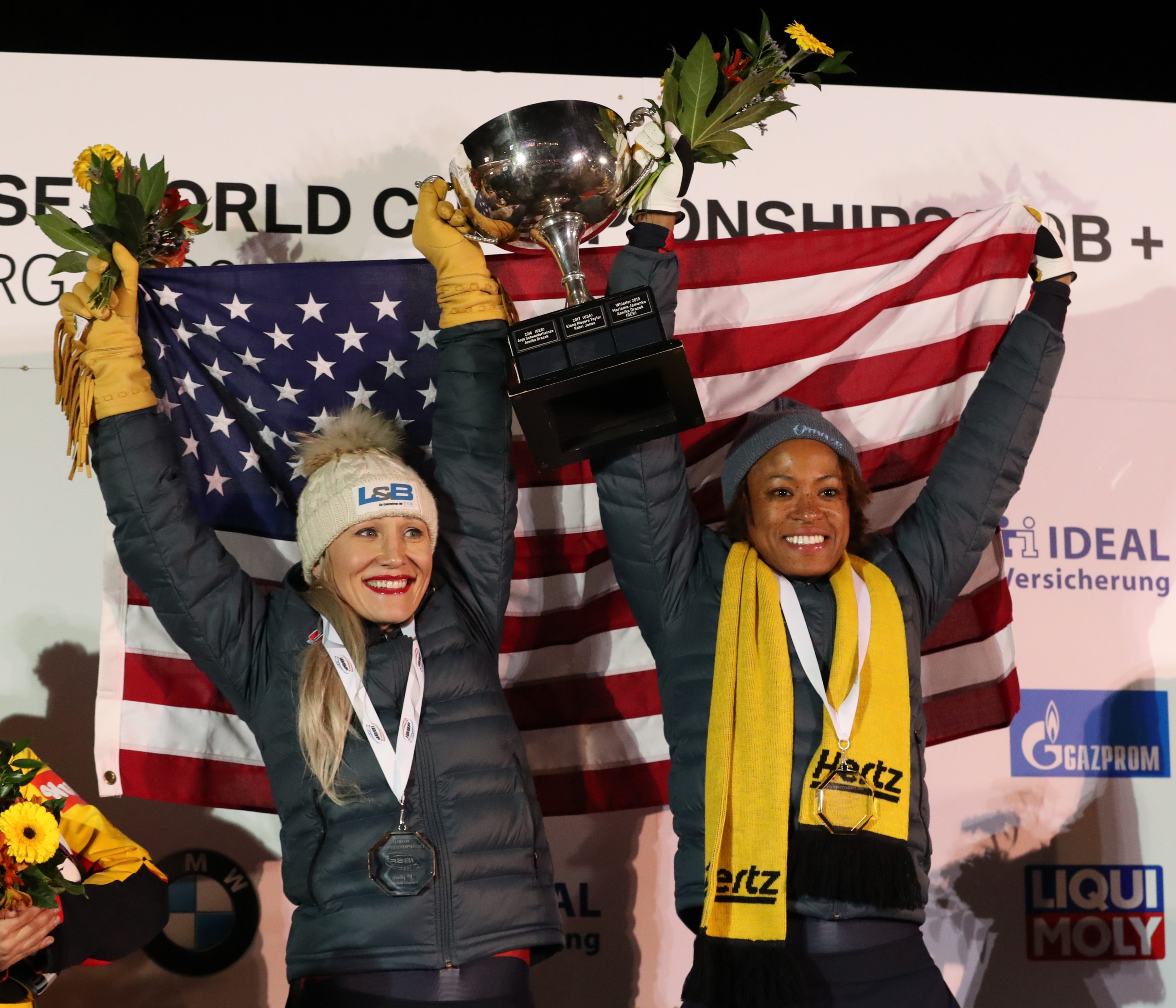 Medal Ceremony at the 2-woman bobsleigh at the Bobsleigh and Skeleton World Championships 2020 in Altenberg